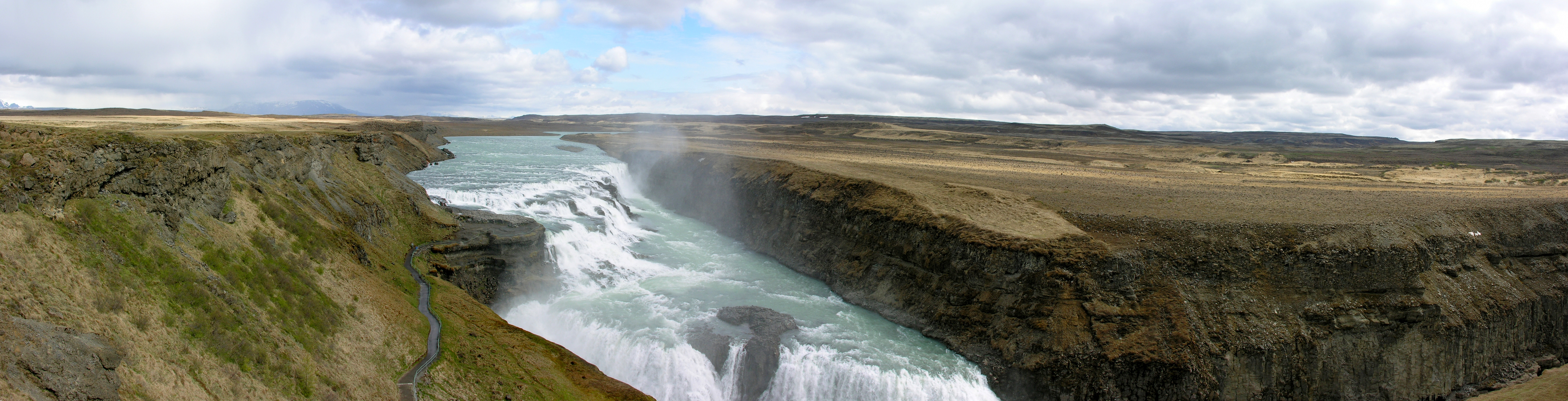 Iceland, Gullfoss